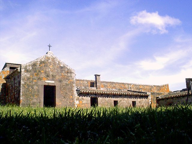 Old chapel in Fuerte San Miguel, Rocha Department, Uruguay (South America).